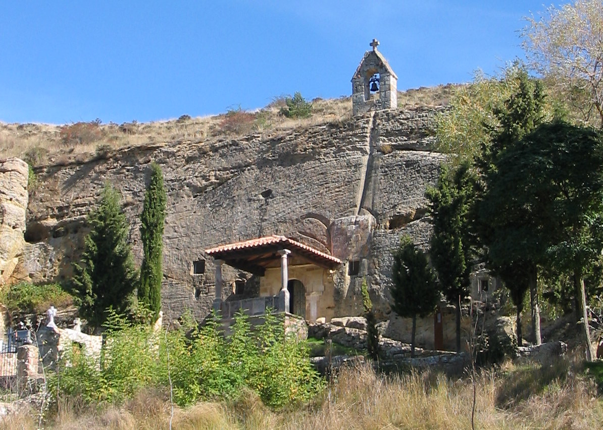 Olleros de Pisuerga, Palencia, Spain. Hypogean chapel of Saints Justo and Pastor - view front access. Carved on Utrillas Formation sandstones (Cretaceous).